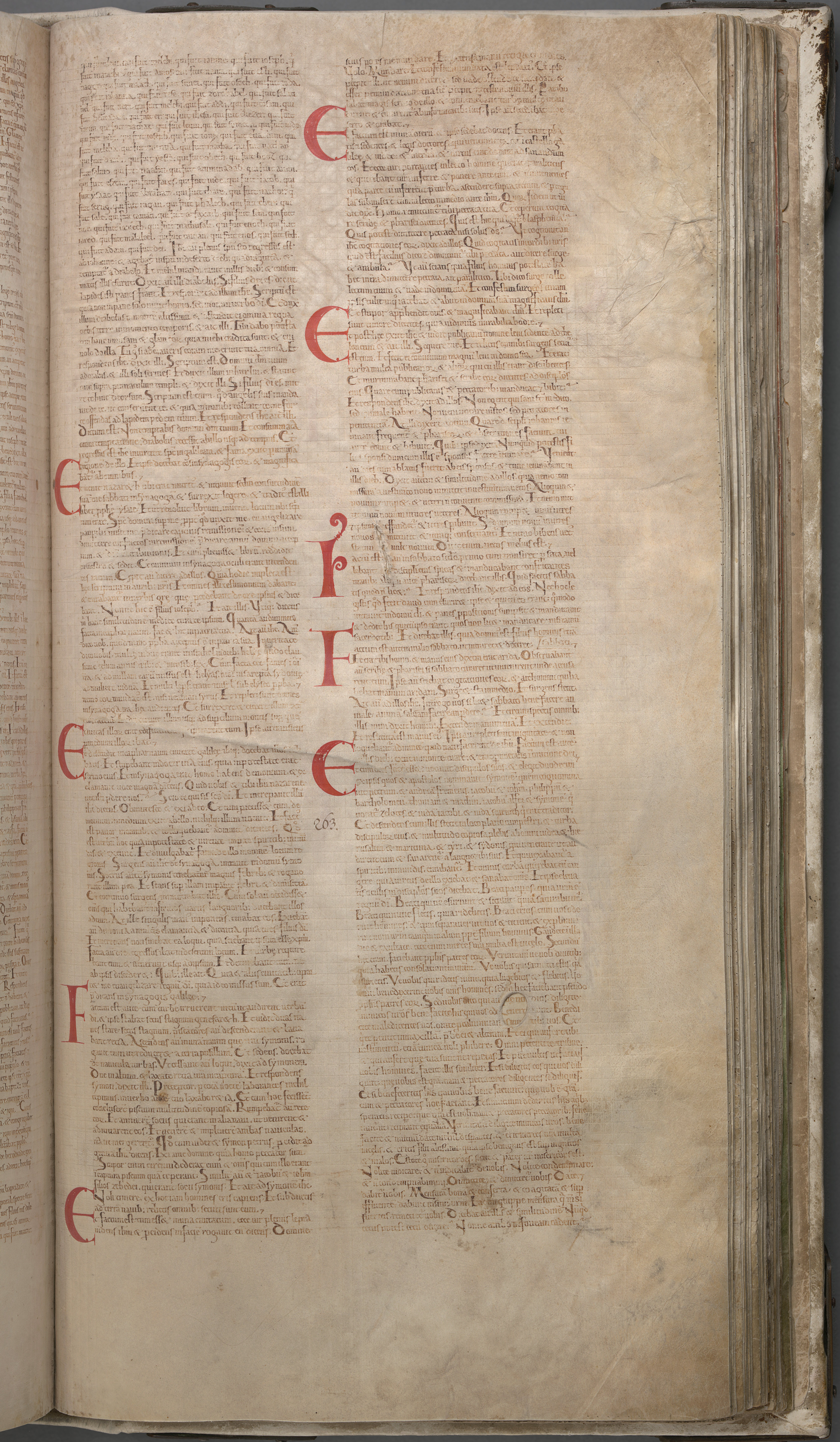 Giant Book) is the largest extant medieval manuscript in the world. It is also known as the Devil's Bible because of a large illustration of the devil on the inside and the legend surrounding its creation. It is thought to have been created in the early 13th century in the Benedictine monastery of Podlažice in Bohemia (modern Czech Republic). It contains the Vulgate Bible as well as many historical documents all written in Latin. During the Thirty Years' War in 1648, the entire collection was taken by the Swedish army as plunder, and now it is preserved at the National Library of Sweden in Stockholm, though it is not normally on display.